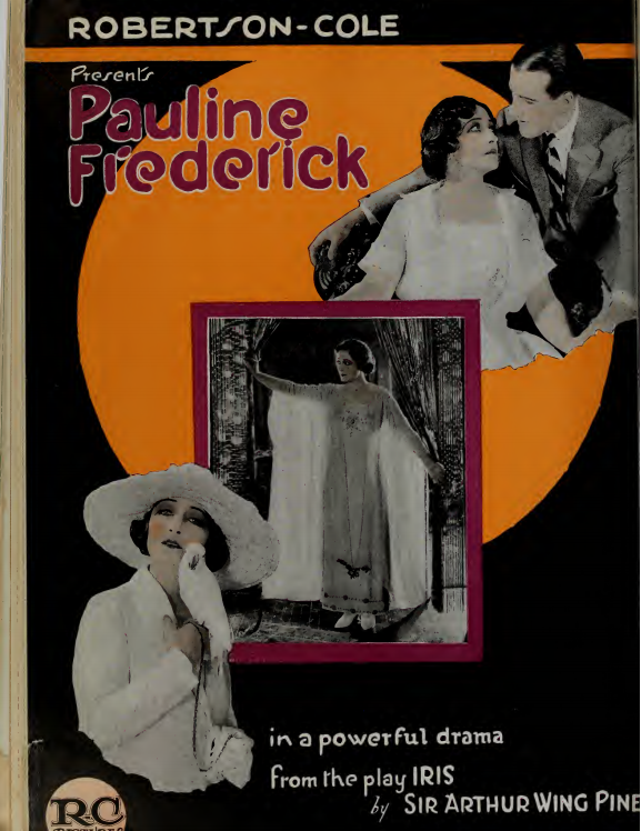 Advertisement with Pauline Frederick in A Slave of Vanity (1920), directed by Henry Otto.